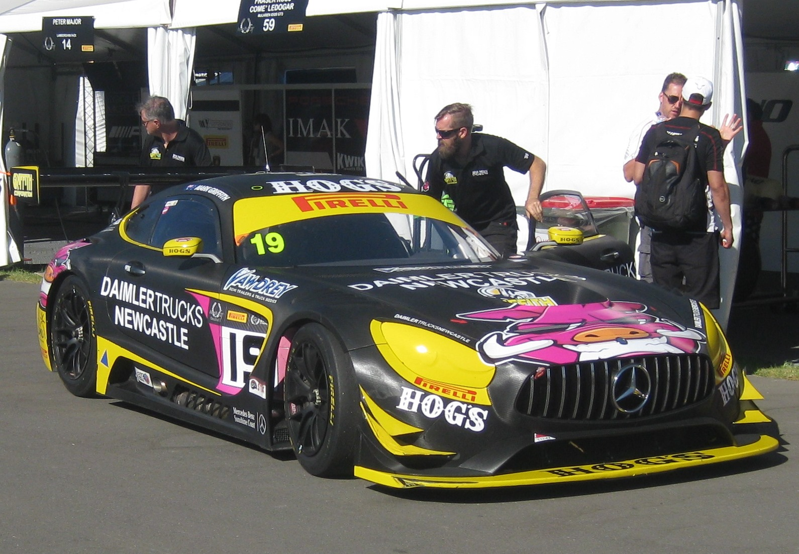 The Mercedes-AMG GT3 of Mark Griffith at the Adelaide Parklands Circuit for the opening round of the 2017 Australian GT Championship.